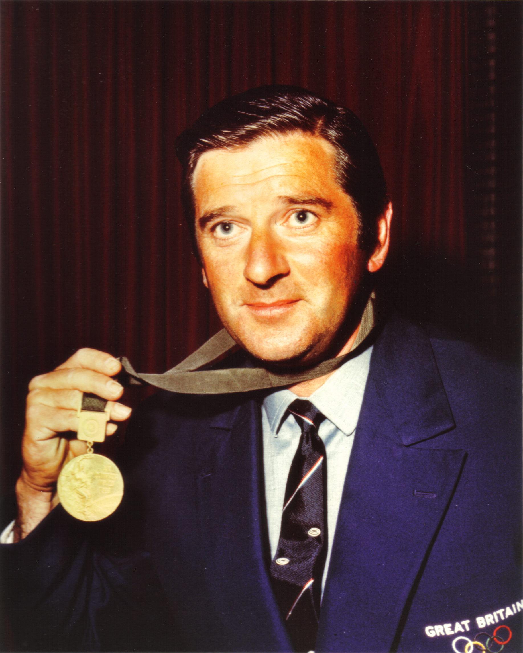 Bob Braithwaite with his Olympic Gold Medal from the 1968 Mexico Olympics.